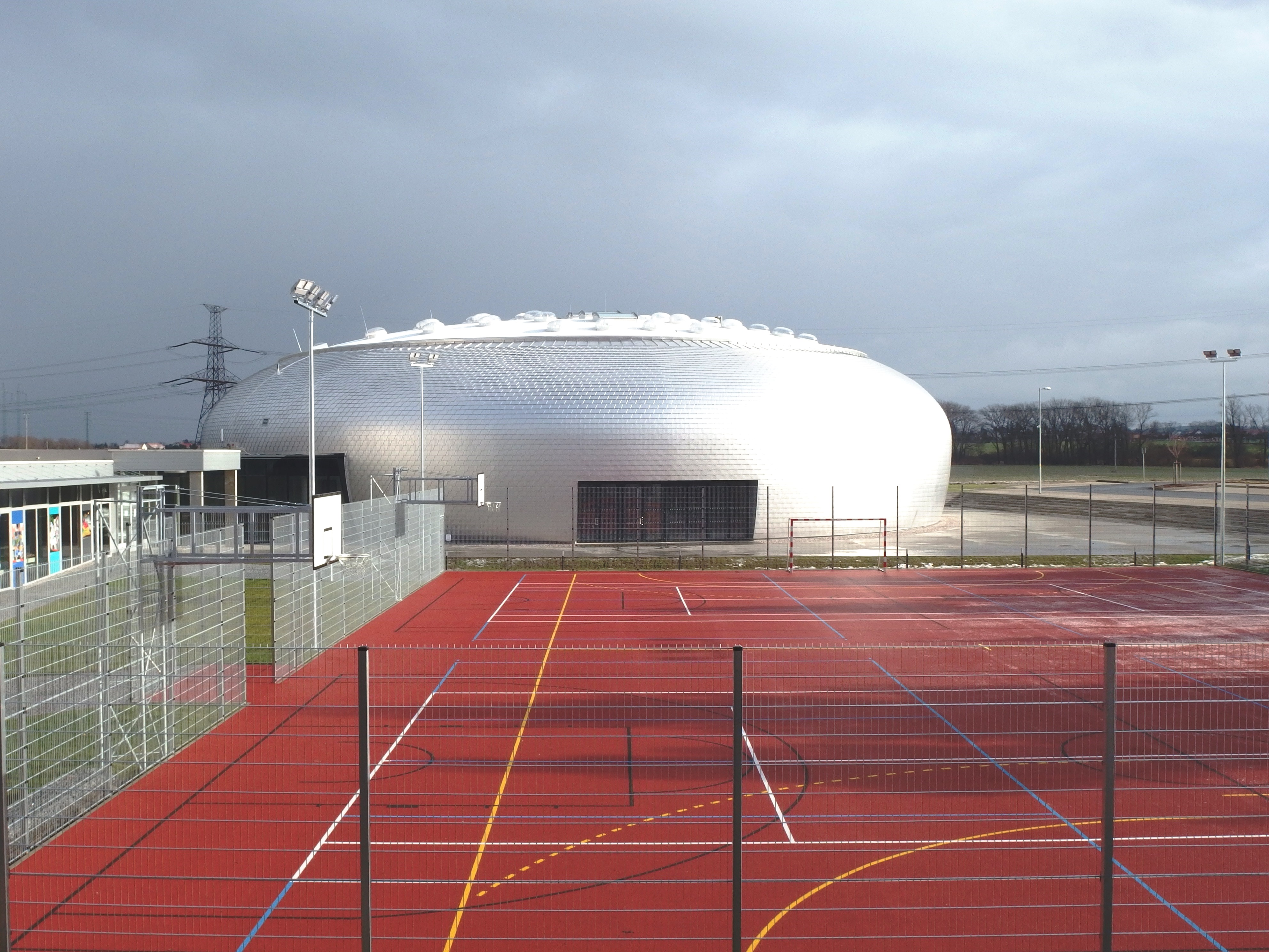 Dolní Břežany, Prague-West District, Czech Republic.